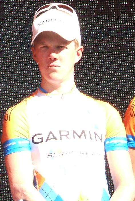 Named cyclist at the en:2009 Tour Down Under team presentation